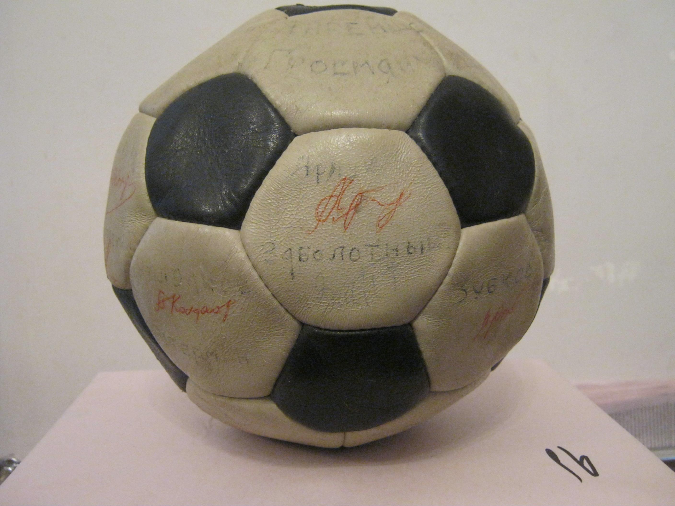 Ball presented to Isaak Grossman in day of its 75 anniversary.